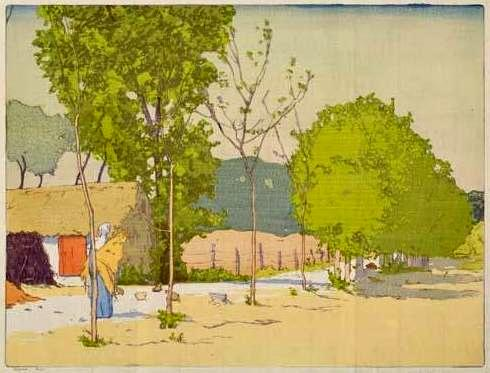 Frank Fletcher, Trépied, A Japanese-style woodblock print, 1910